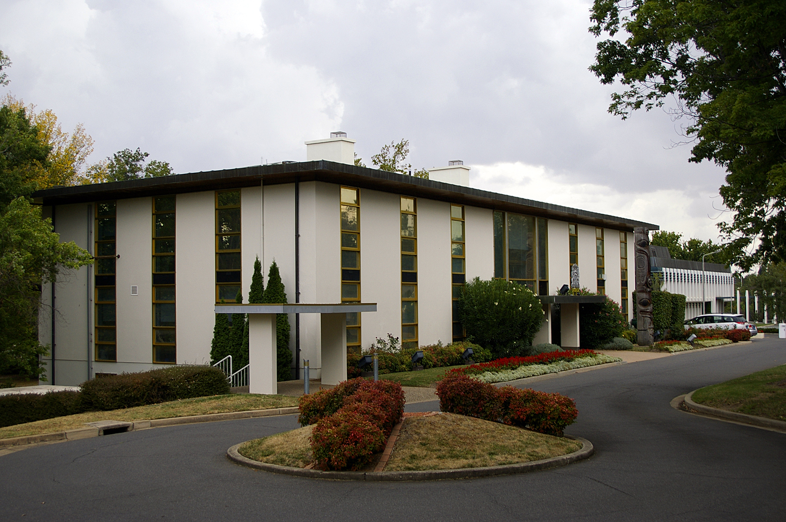 High Commission of Canada located in the Canberra suburb of Yarralumla, Australian Capital Territory, Australia